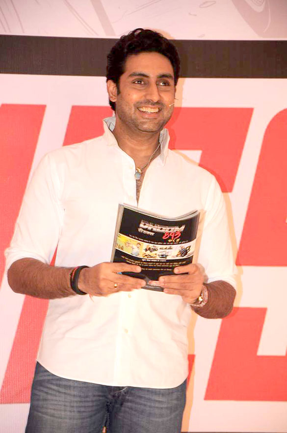 Abhishek Bachchan launch 'YOMICS'